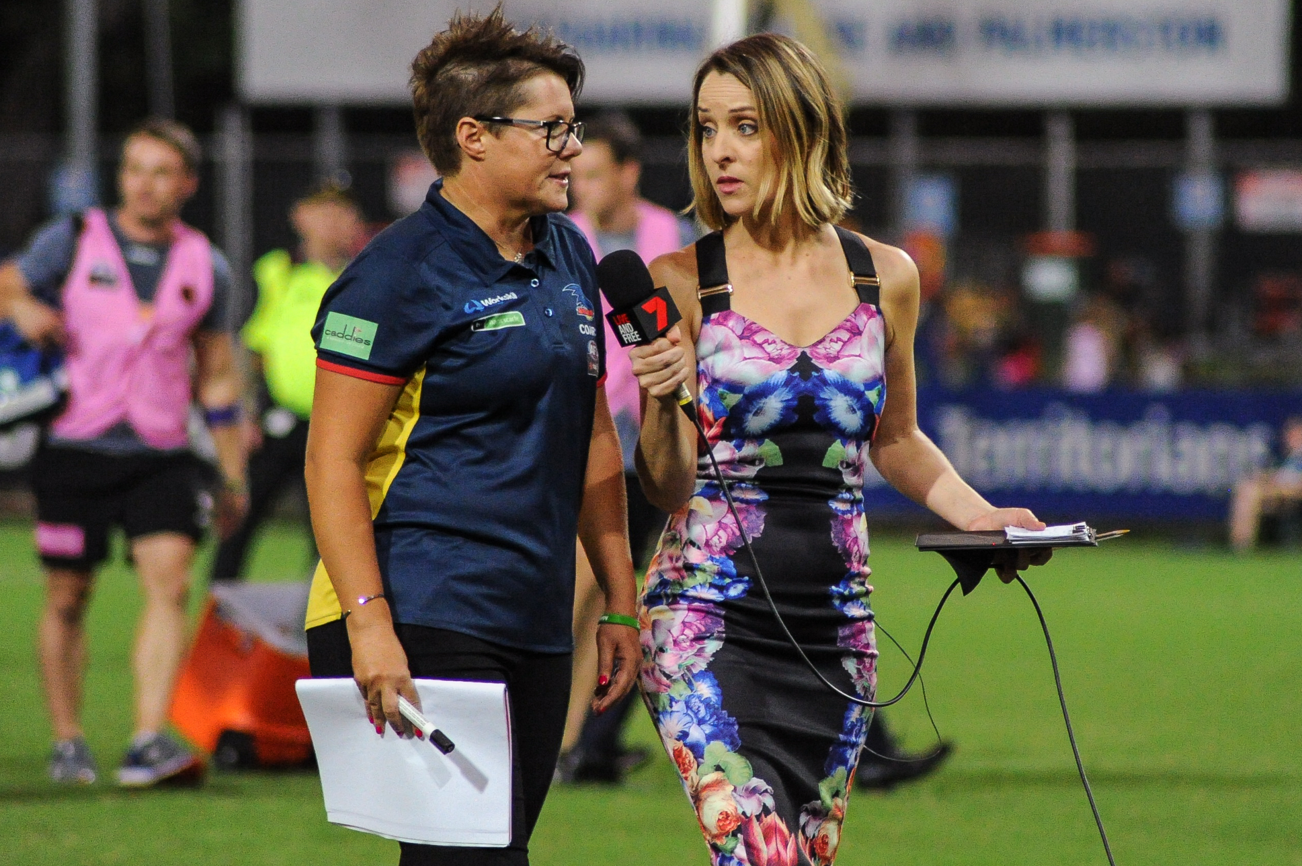 Sam Lane interviewing Bec Goddard during the AFL Women's round six match between Adelaide and Melbourne on 11 March 2017 at TIO Stadium in Darwin, Northern Territory